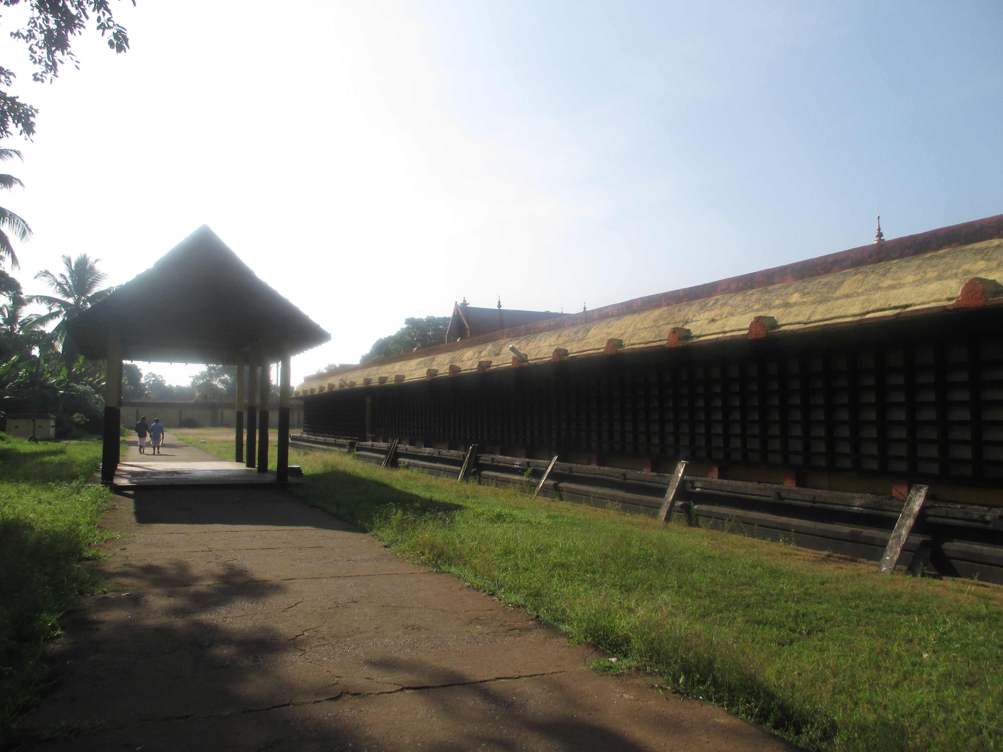 Sreevallabha temple, Thiruvalla